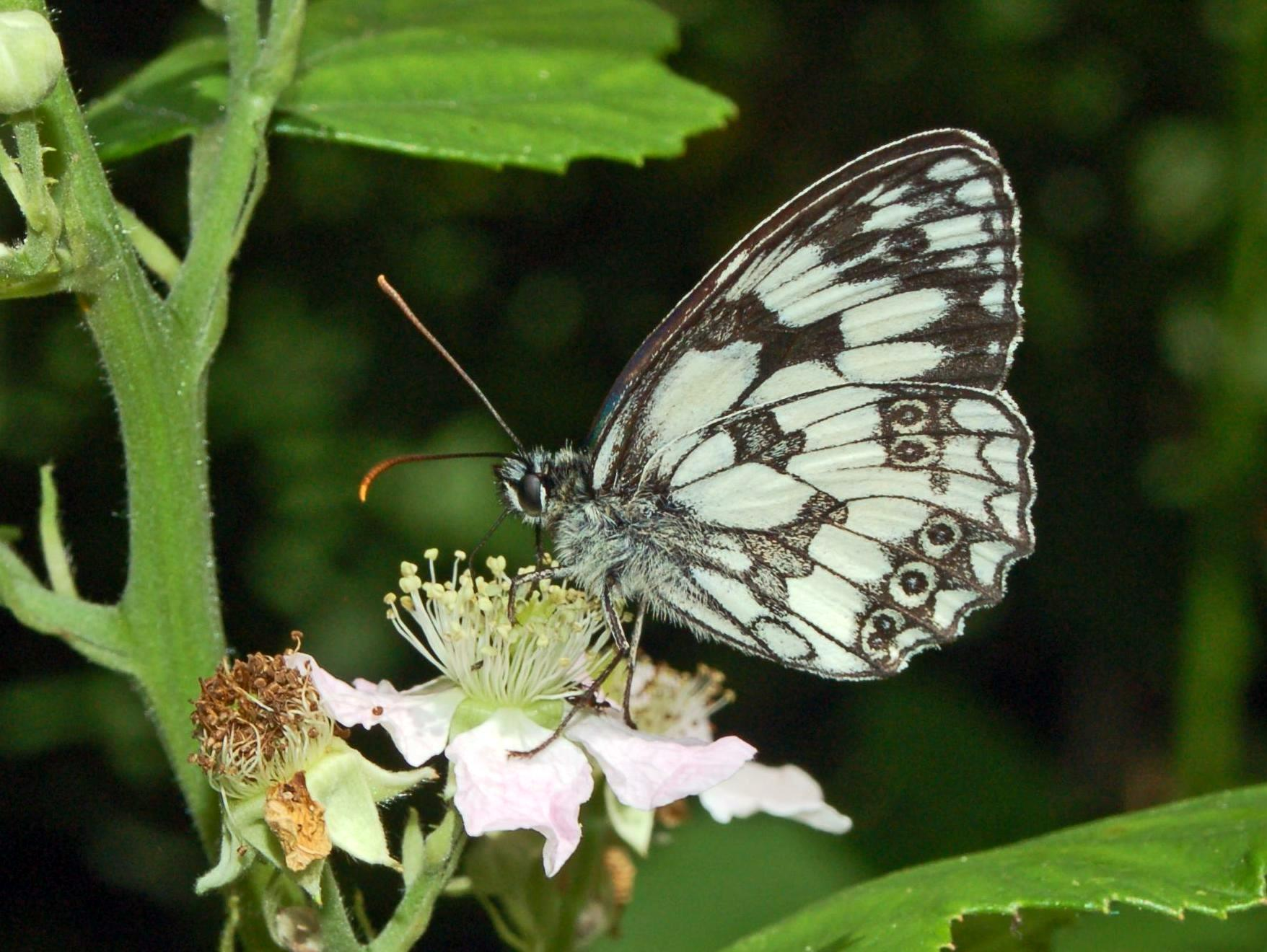 Melanargia galathea - Val Noci, Genova, Italy